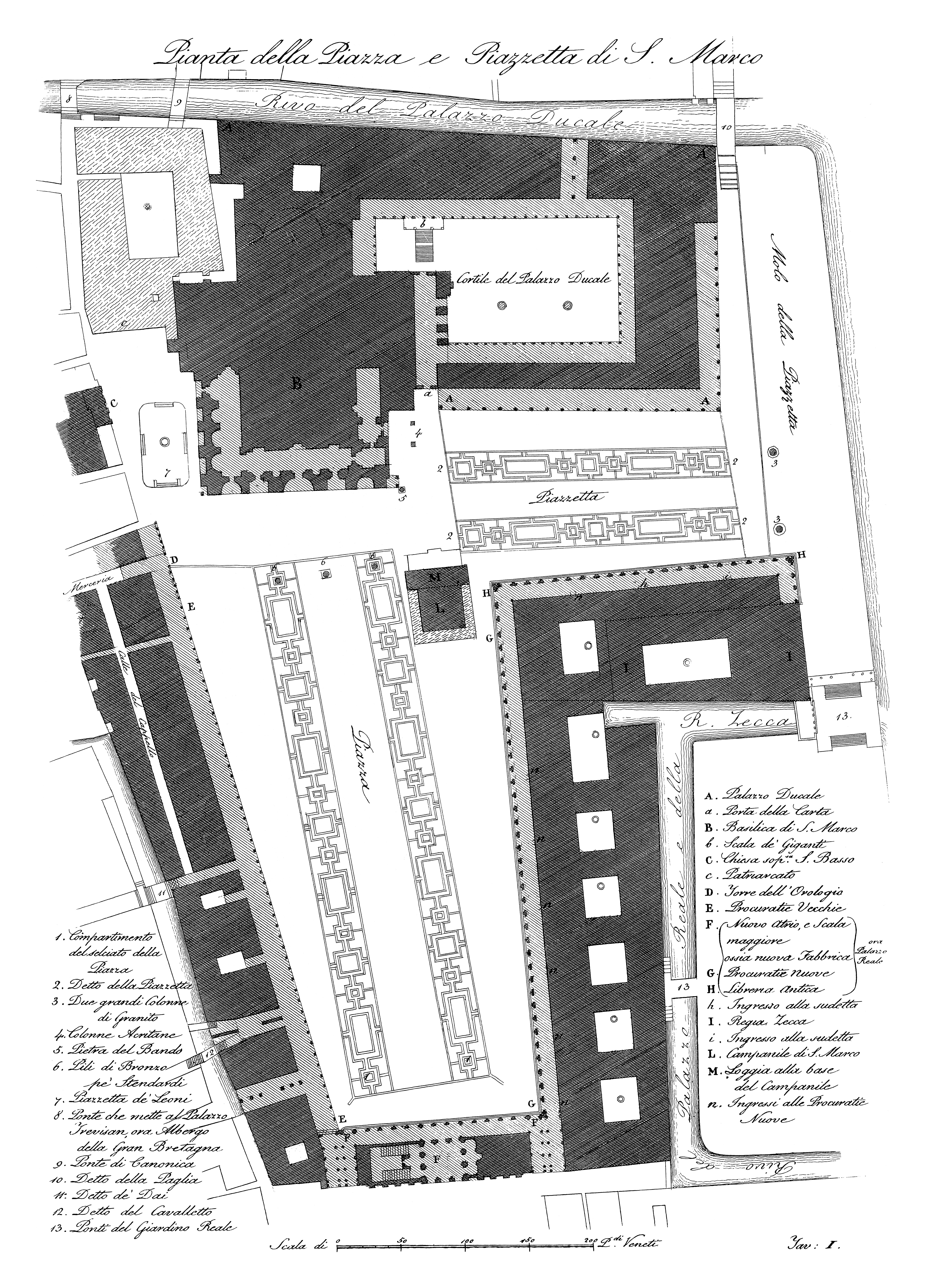 This image shows plate I, entitled Pianta della Piazza e Piazetta di San Marco. Map of the Piazza (and the Piazetta) San Marco in Venice, Italy, from 1831. In general, the buildings around the Piazza haven’t changed since then, so this plan reflects the modern situation nearly exactly.